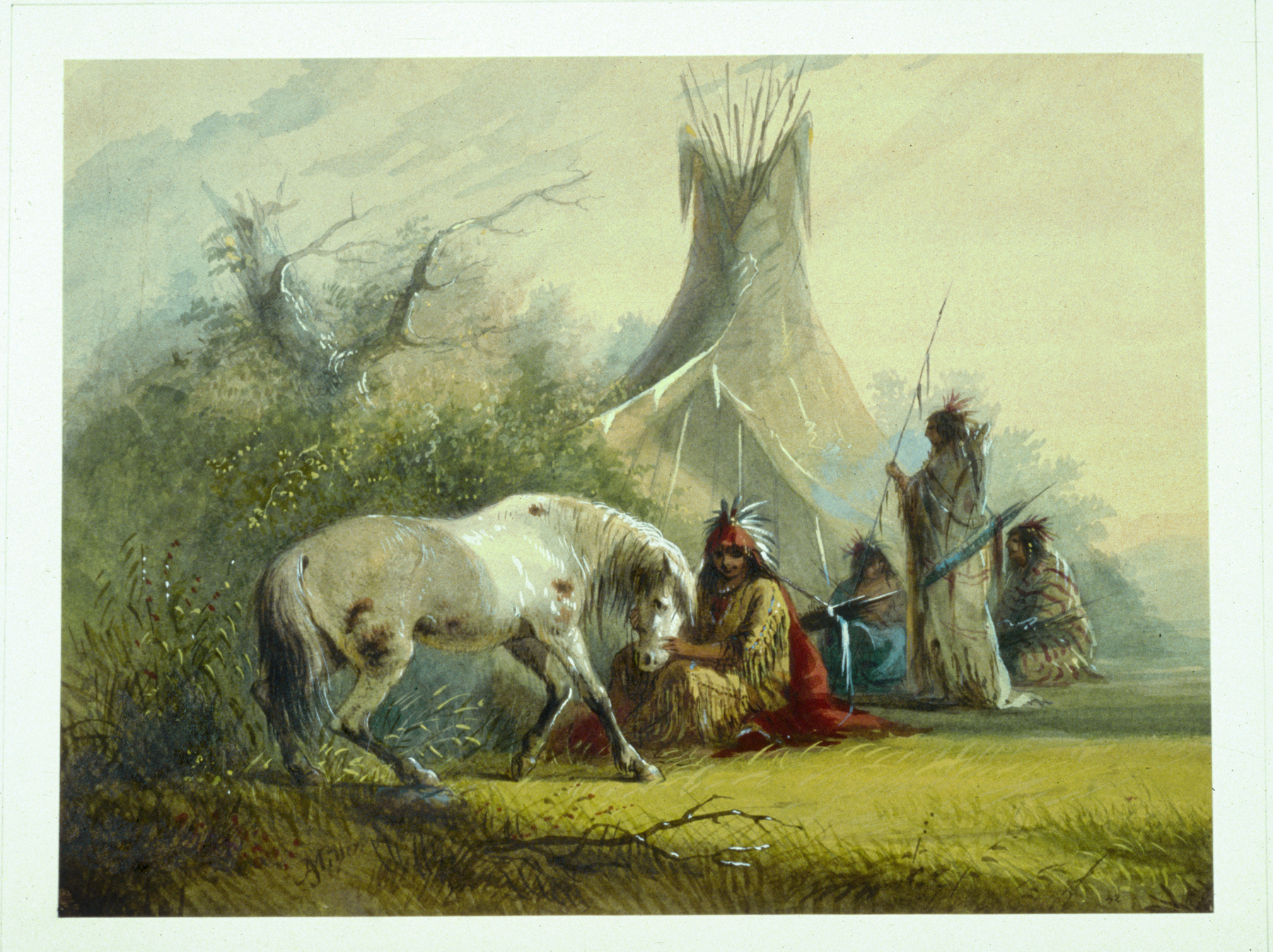 The scene is a normal day in an Indian village, with the teepee thrown open to admit the fresh air while the Indians in front are making bows, arrows, and so on. In the foreground, a warrior is petting his horse. Miller, perhaps in anticipation of the old cowboy-and-horse story, suggested that, if the Indian had to choose between his horse and his bride, "we opine that the horse would be the first choice."